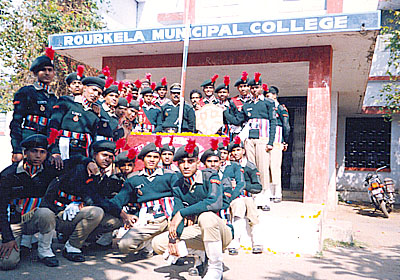 Municipal College, Rourkela